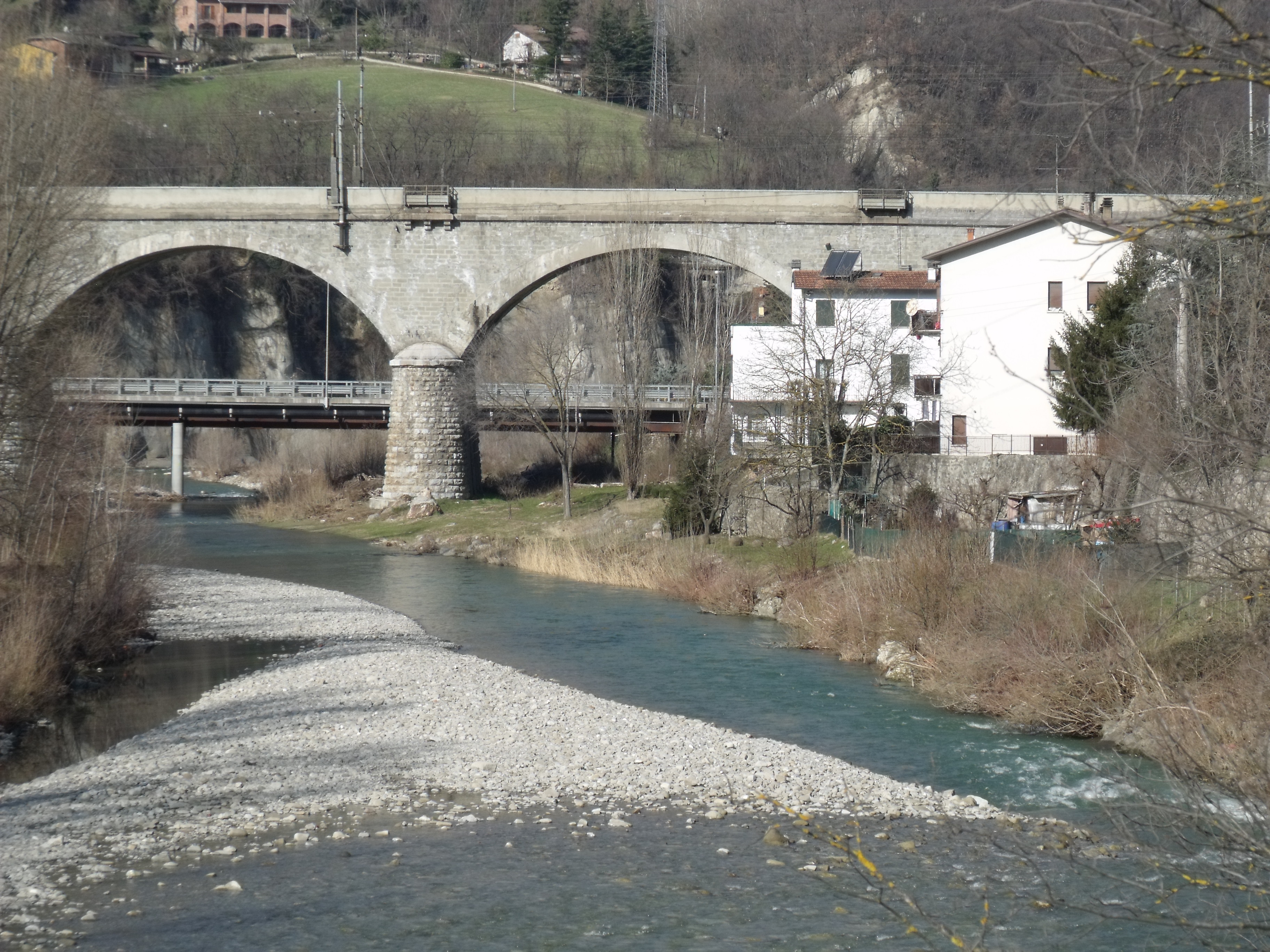 The Setta River in Vado, Municipality of Monzuno, Province of Bologna, Emilia-Romagna, Italy